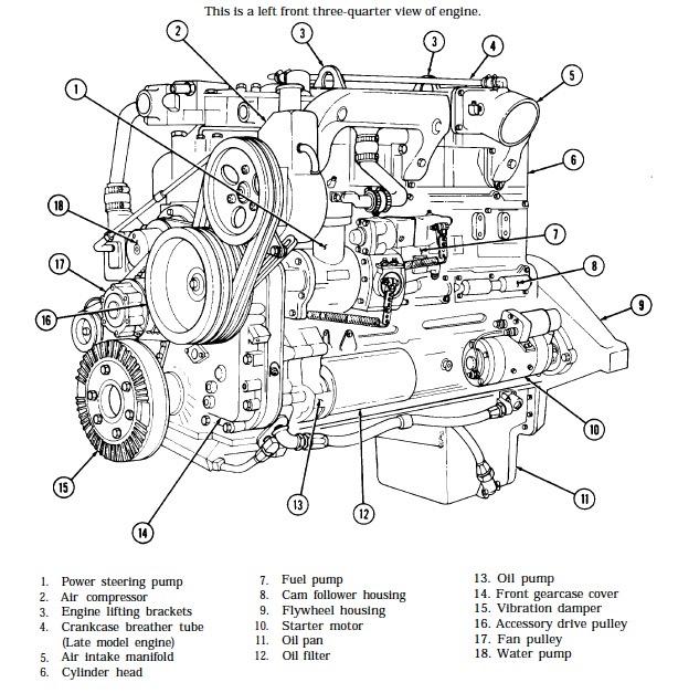 Cummins NH250 engine left front view